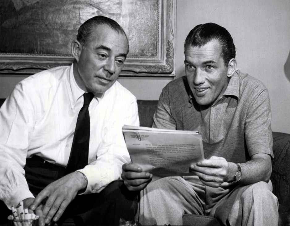 Photo of Richard Rodgers and Ed Sullivan. Sullivan presented a two-part special on Rodgers' life on his 1952 "Toast of the Town" television program. (This was later re-named The Ed Sullivan Show.)